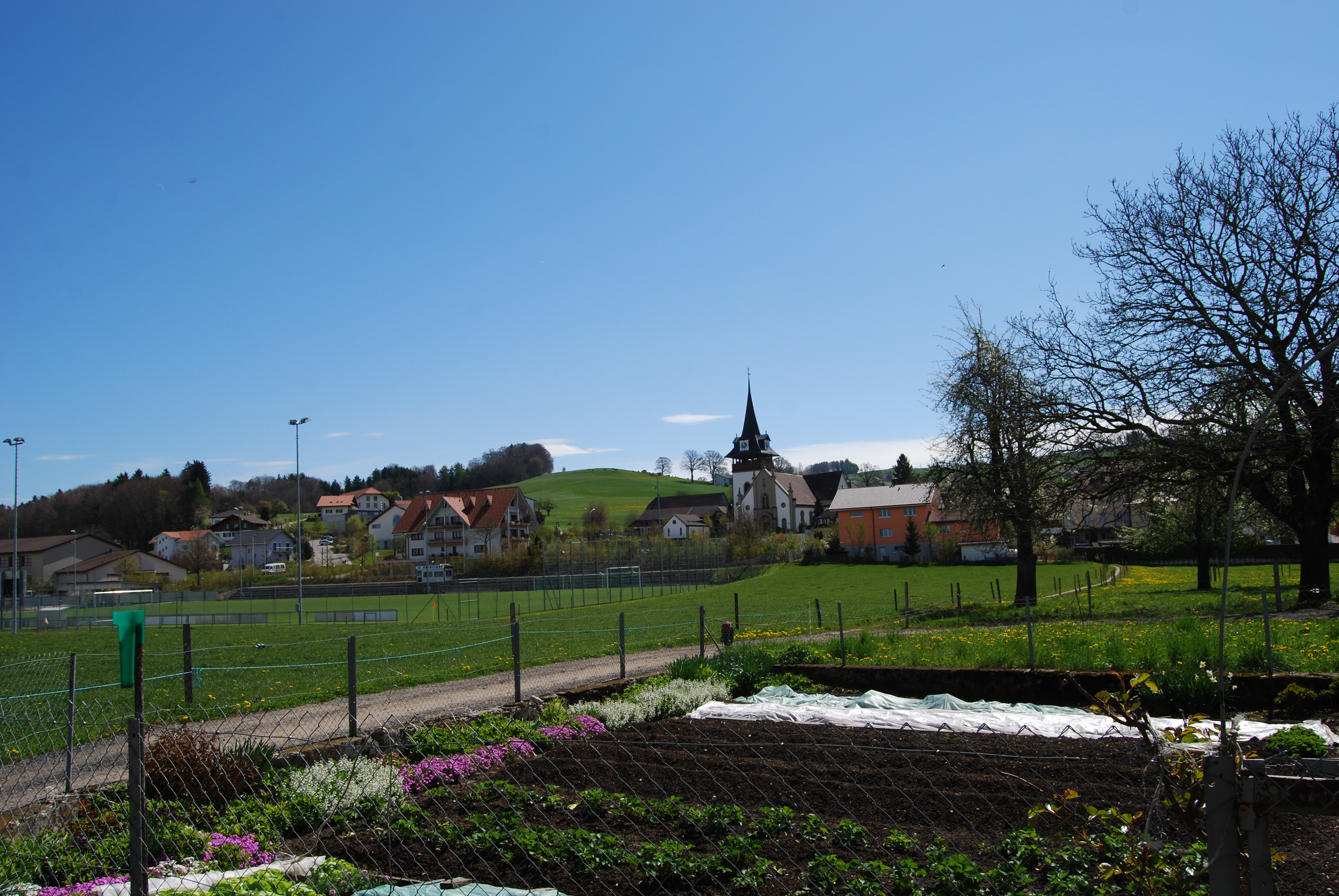 Ueberstorf, canton of Fribourg, SwitzerlandEsperanto: Ueberstorf, Kantono Friburgo, Svislando